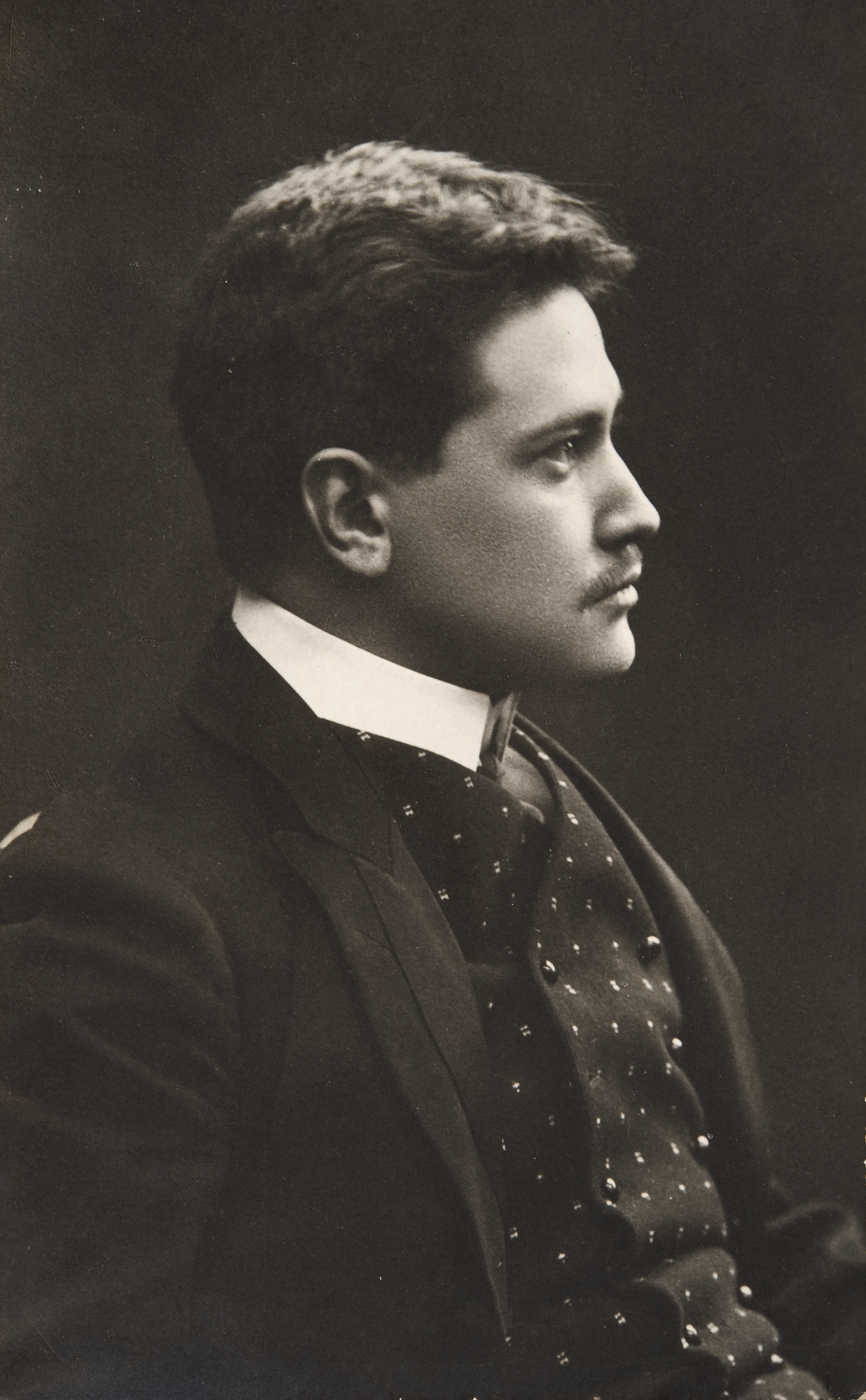 Selim Palmgren finnish composer